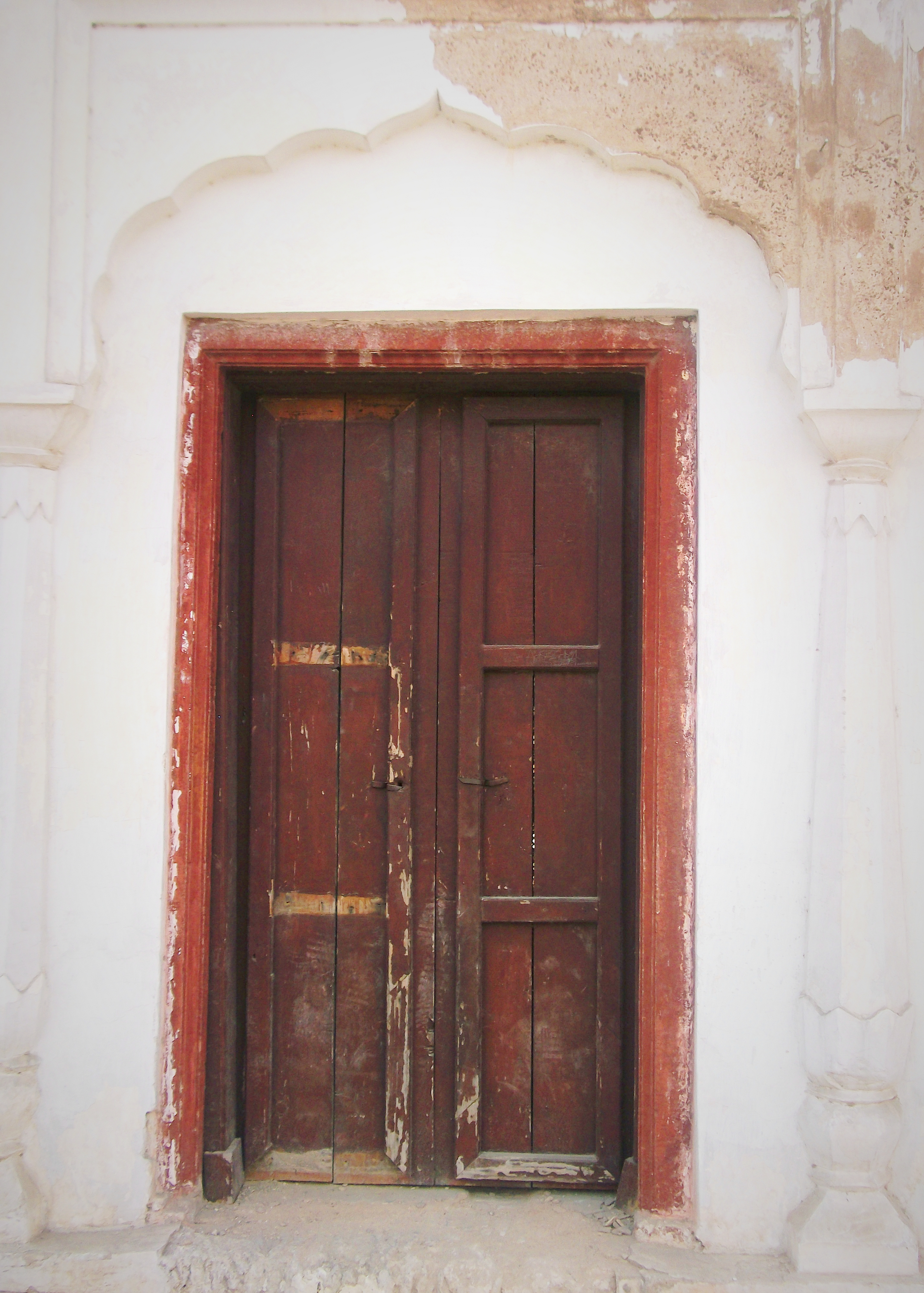 Entrance of Moorcroft Pavilion in Shalimar Gardens, Lahore, Pakistan